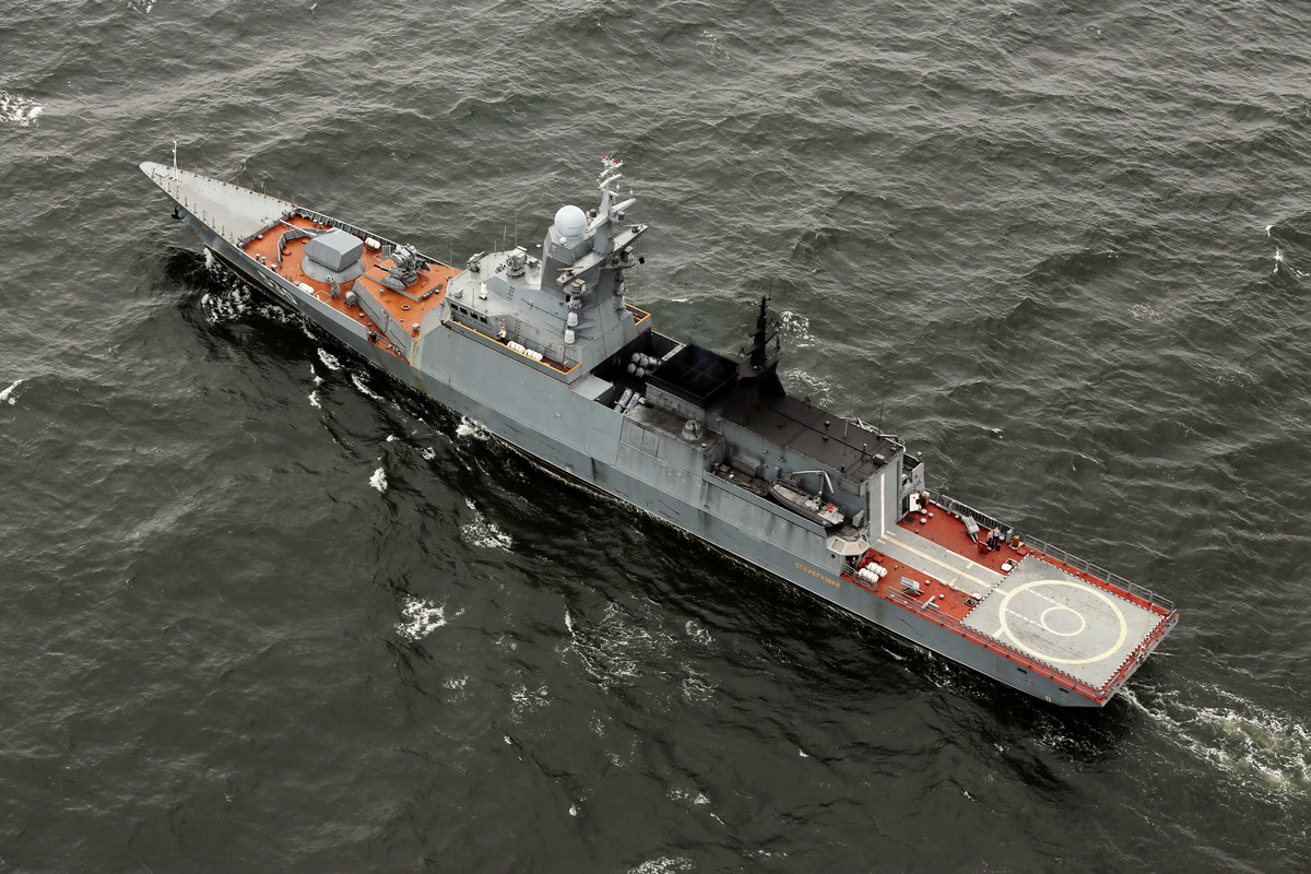 Russian corvette Steregushchiy. 10 Years Anniversary.